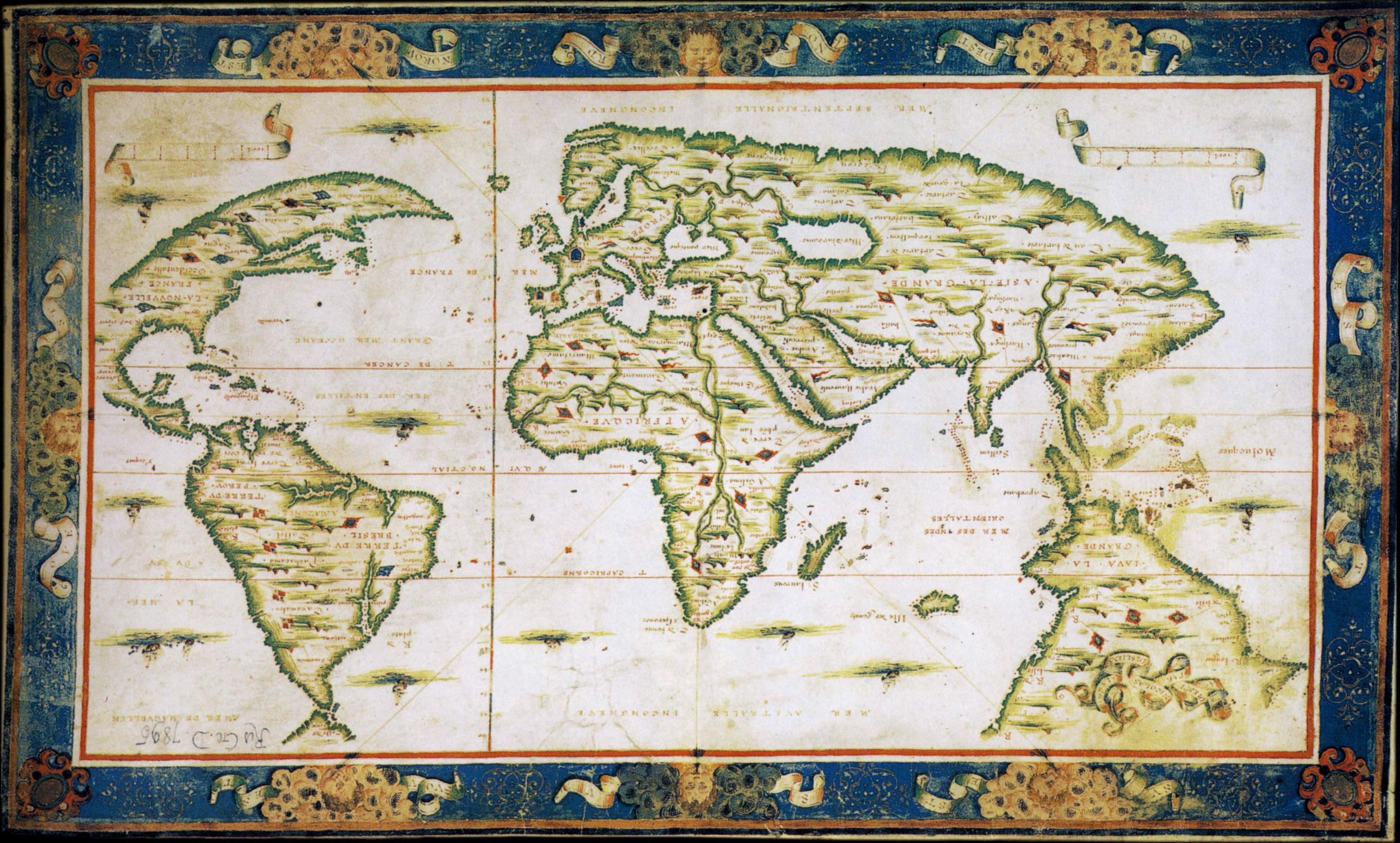 World map of Nicolas Desliens, 1566. This one is upside down: north is on top of the picture, while in the original it is south. Consequently, labels appear here written upside down.